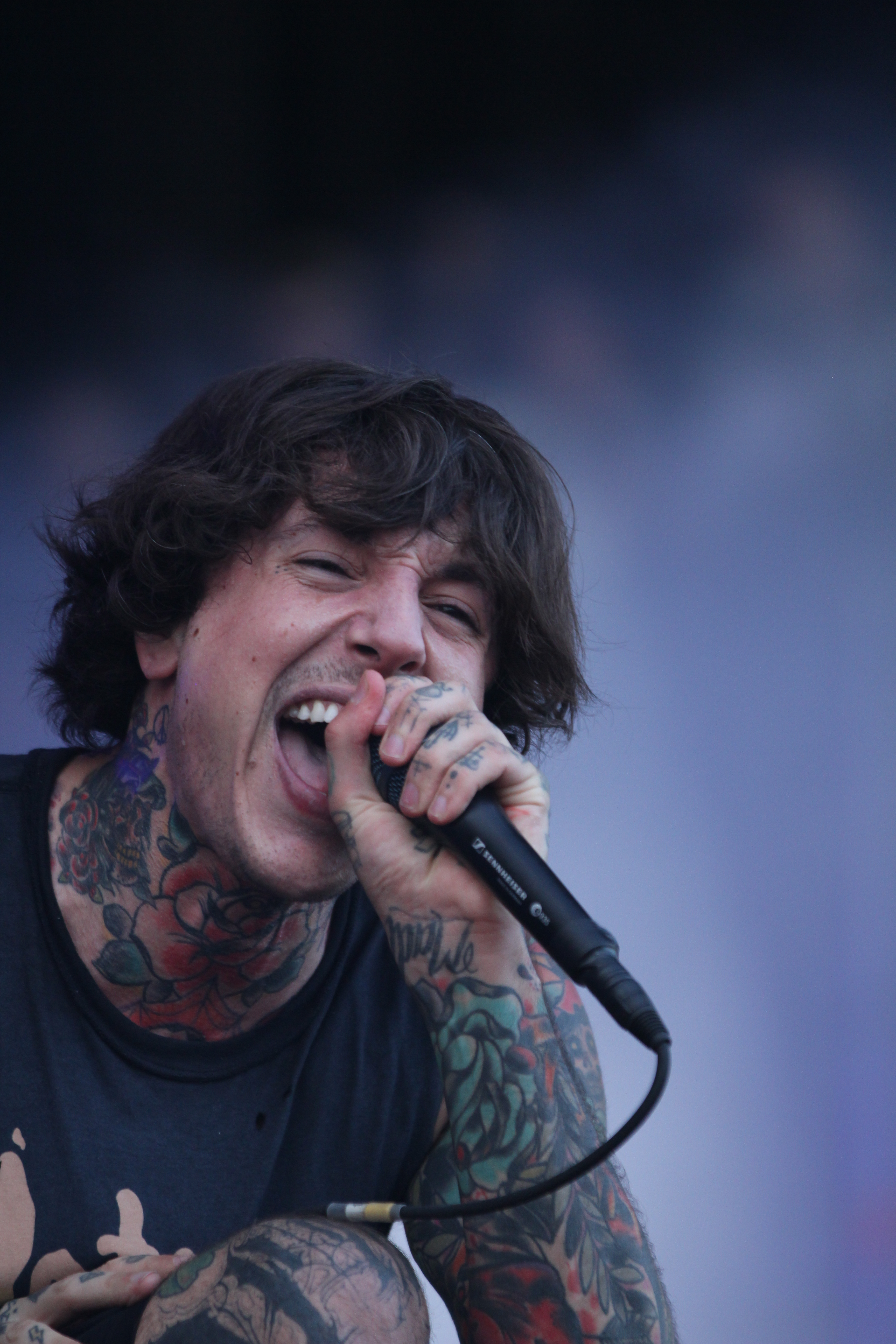 The English metalcore/deathcore band Bring Me the Horizon at the With Full Force festival 2014 in Roitzschjora/Germany